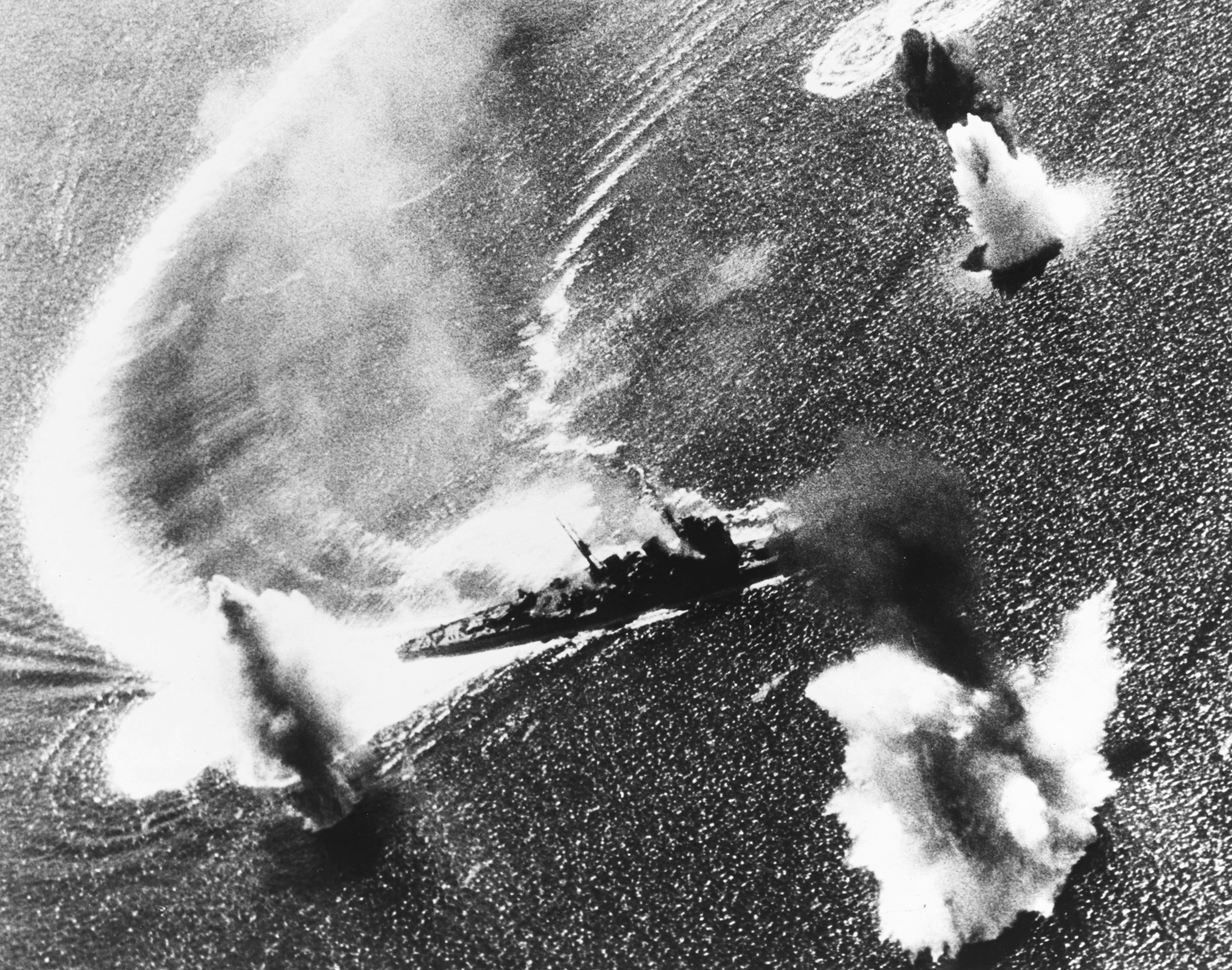 The Japanese heavy cruiser Nachi maneuvering under air attack from the U.S. Navy Task Group 38.3 in Manila Bay, Philippines, on 5 November 1944. Nachi was sunk in this attack.